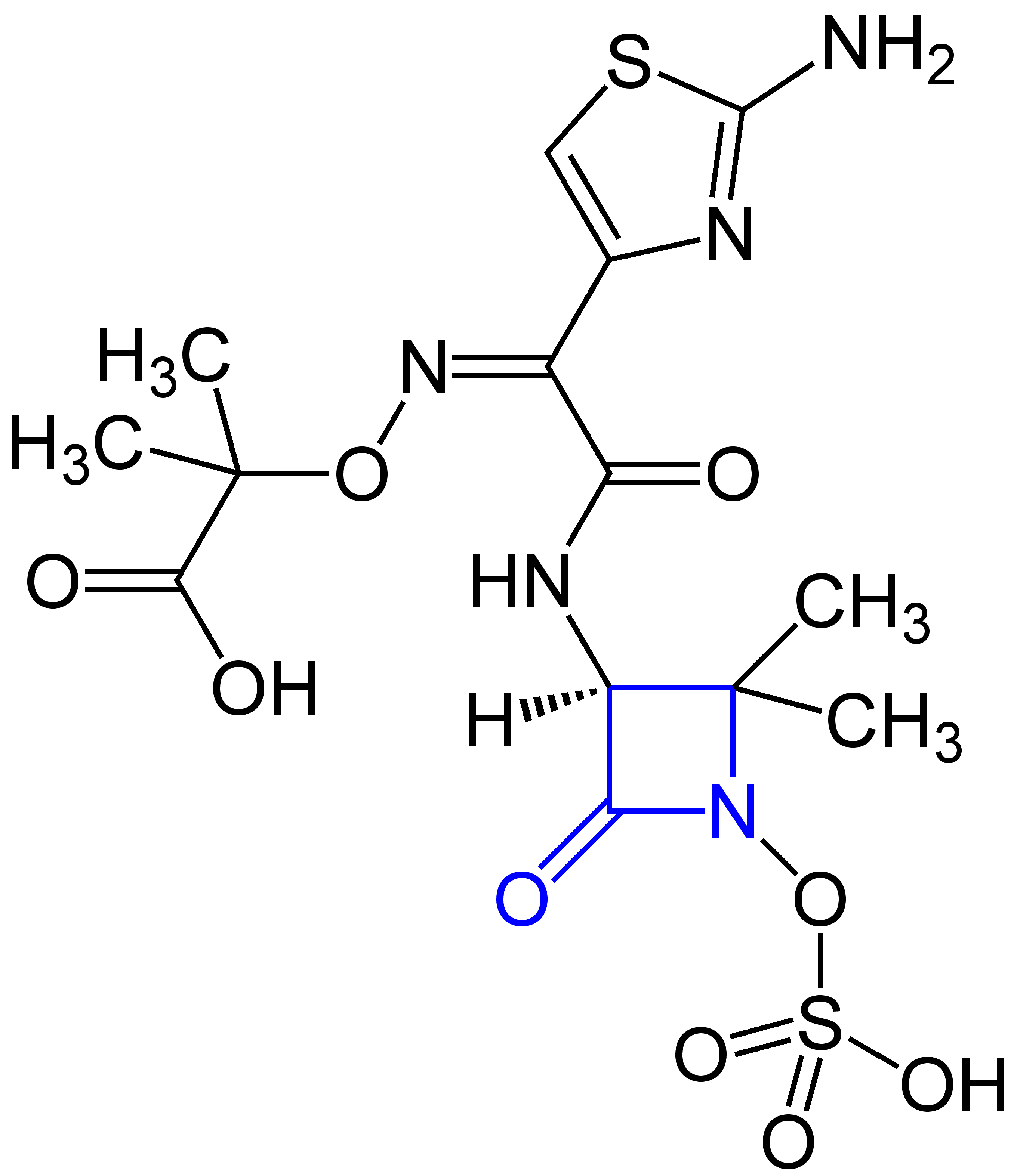 Tigemonam_Structural_Formulae